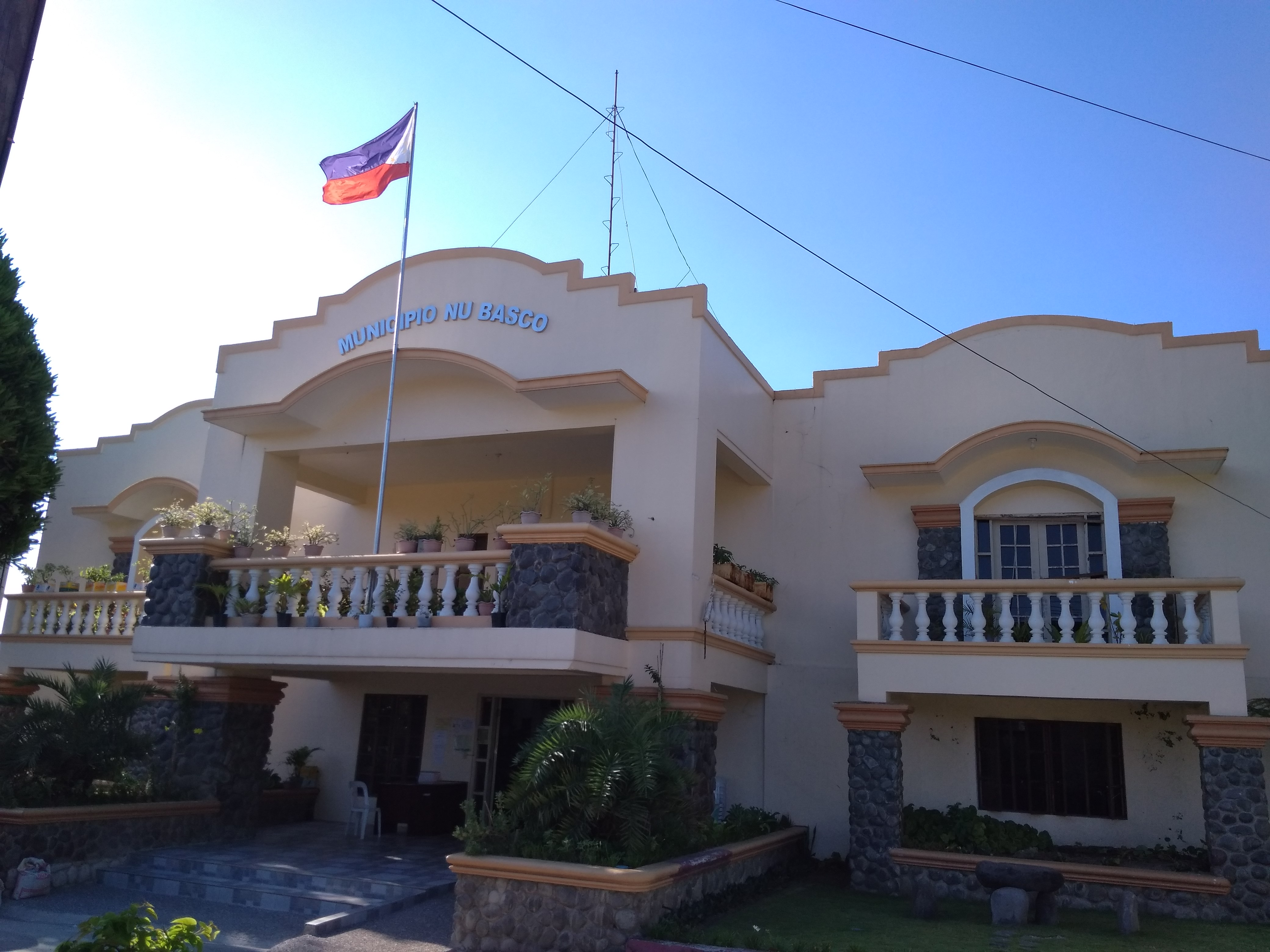 Municipal hall of Basco, Batanes, Philippines Filipino: Bulwagan ng Munisipyo ng Basco, Batanes, Pilipinas